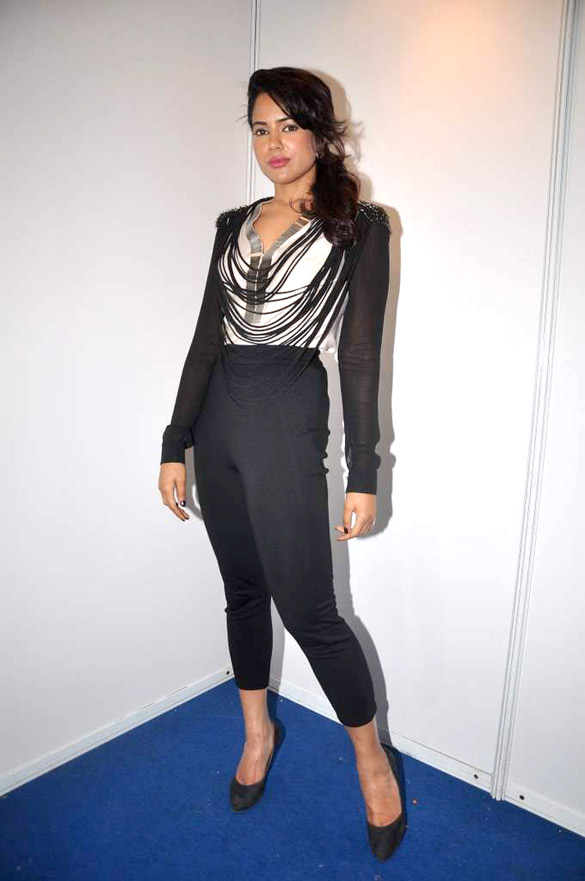 Photo Of Sameera Reddy From The Sameera Reddy at Auto Expo